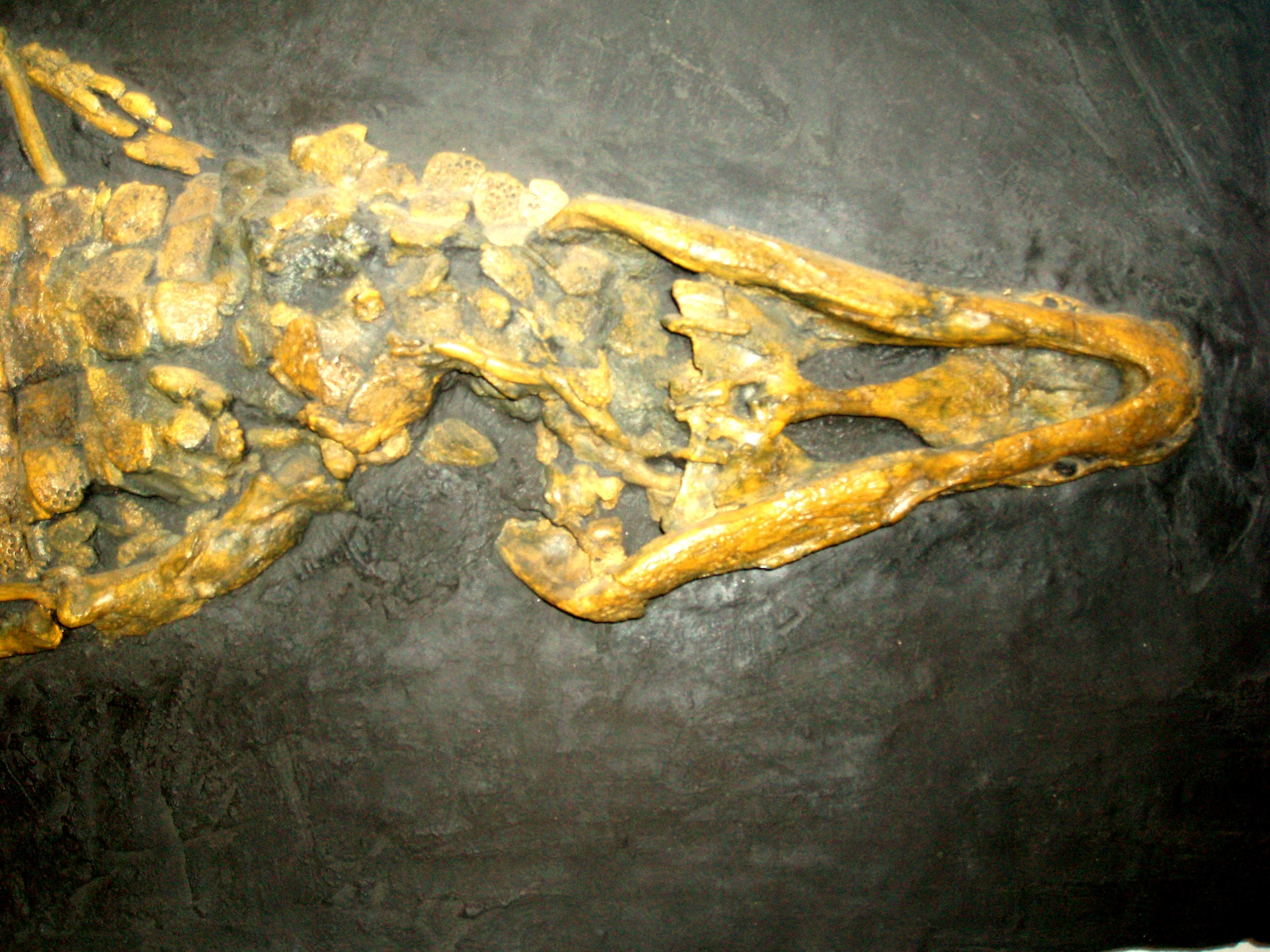 Fossil of Diplocynodon darwini, an extinct crocodylomorph, in the museo di storia naturale milano